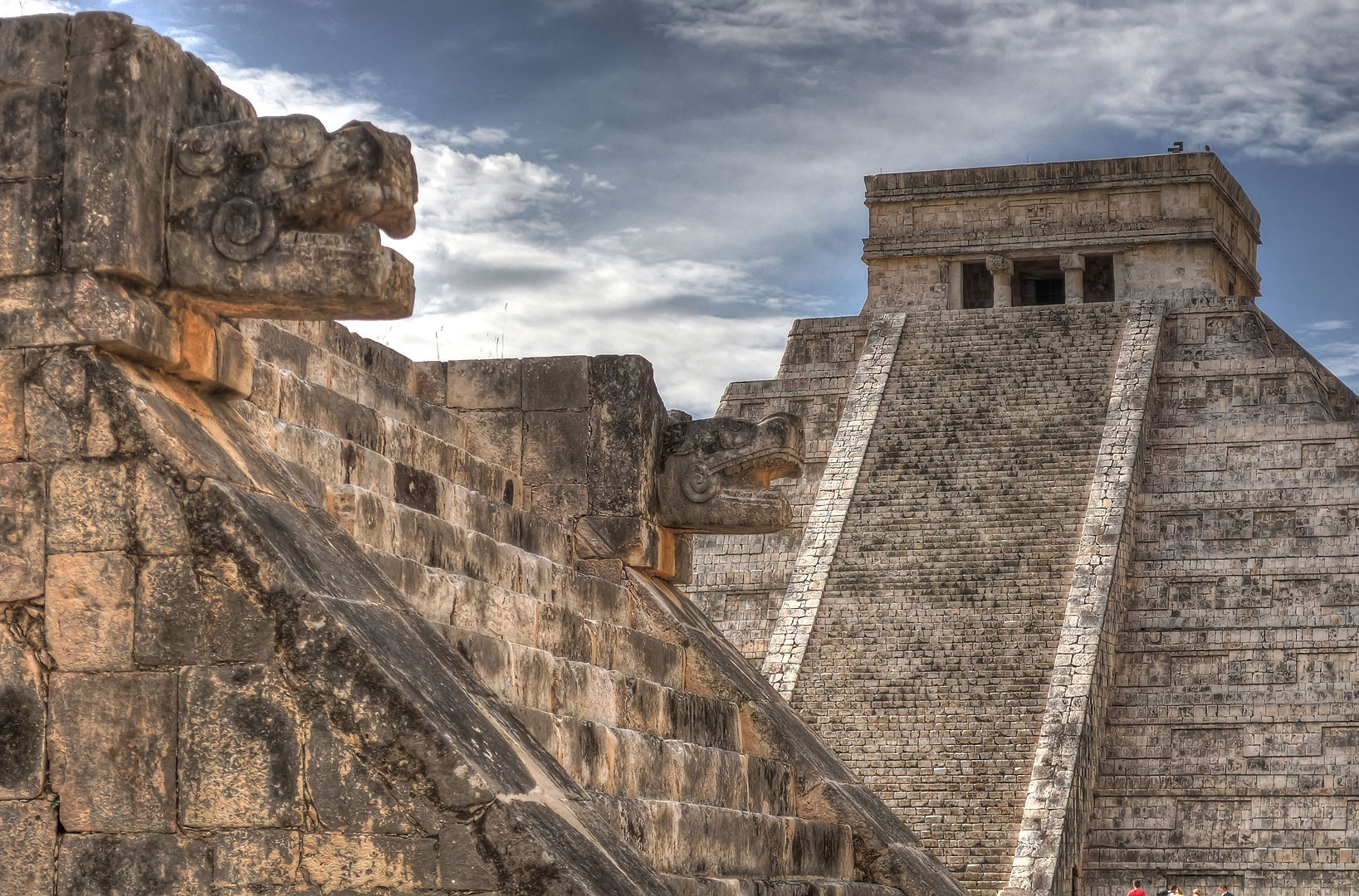 Temple of Kukulkan, also known as El Castillo, and feathered-serpent heads. 12th century A.C. Chichén Itzá archaeological site, Yucatán, México.